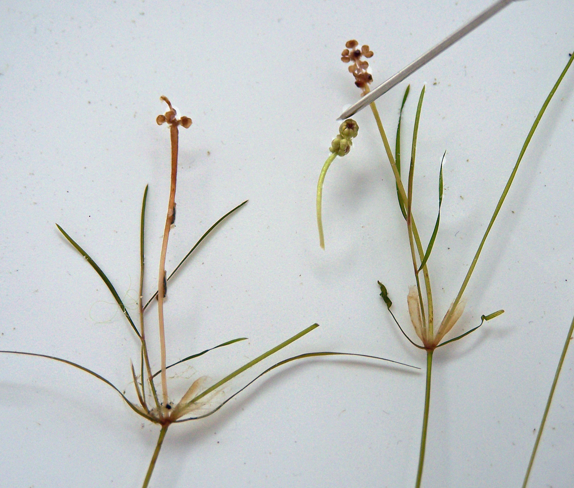 Species: Potamogeton trichoides Cham. & Schltdl., described by Adelbert von Chamisso (1781 – 1831). Common name: Hair-like Pondweed.